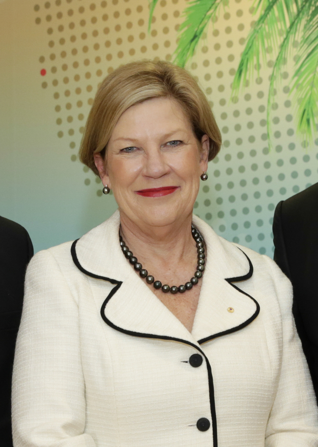 Peter Baxter, Director General of AusAID; Ann Sherry, CEO of Carnival Australia; and Prime Minister of Vanuatu, the Hon Moana Carcasses Kalosil following their MoU signing ceremony in Sydney, July 2013. The MoU outlines several areas for collaboration between the Australian Government and Carnival Australia to improve business prospects in Vanuatu. Photo: Jim Rice for Carnival Australia